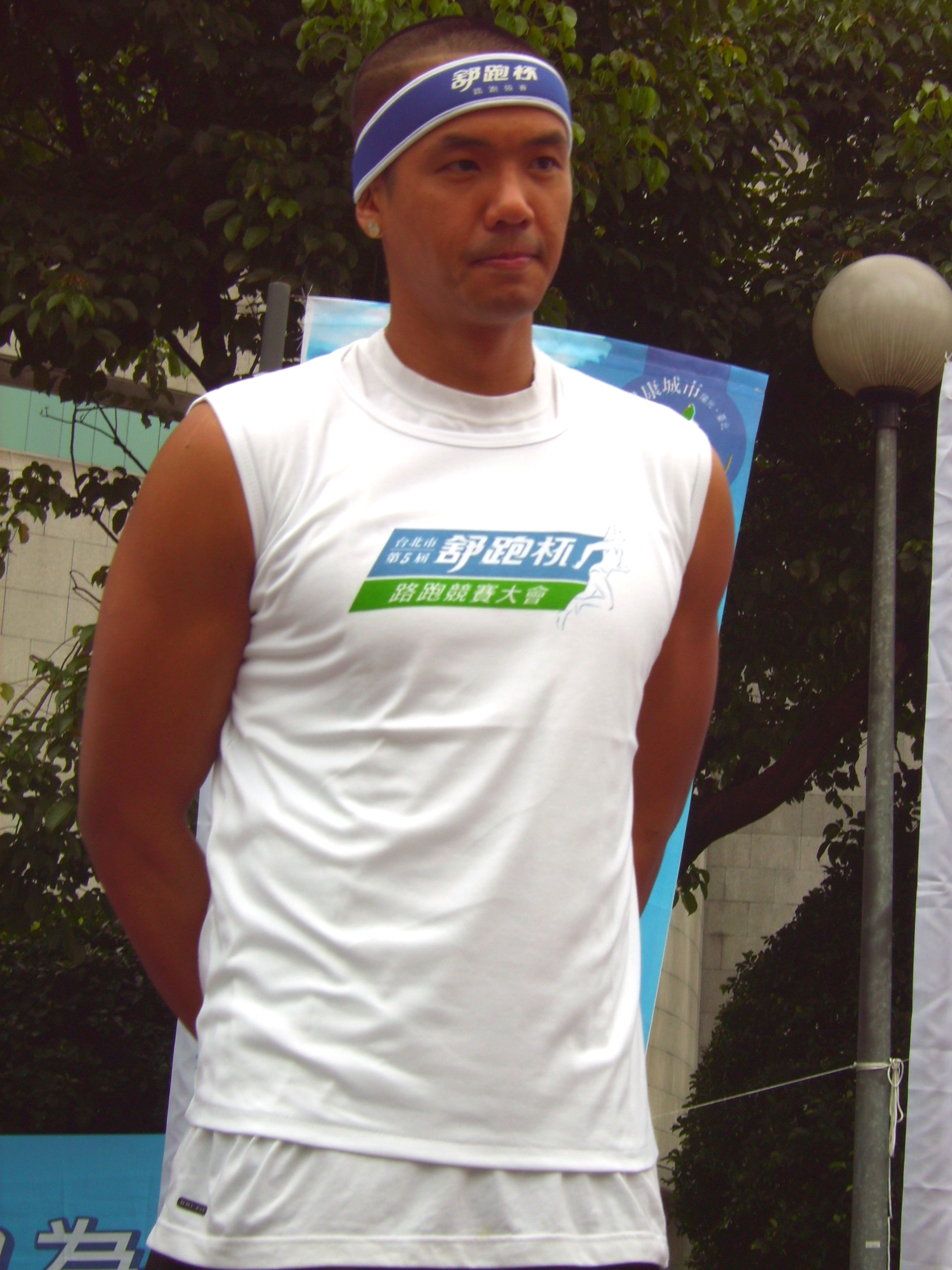 Charles C. C. Chen is Supau Cup Mini Marathon spokesman.